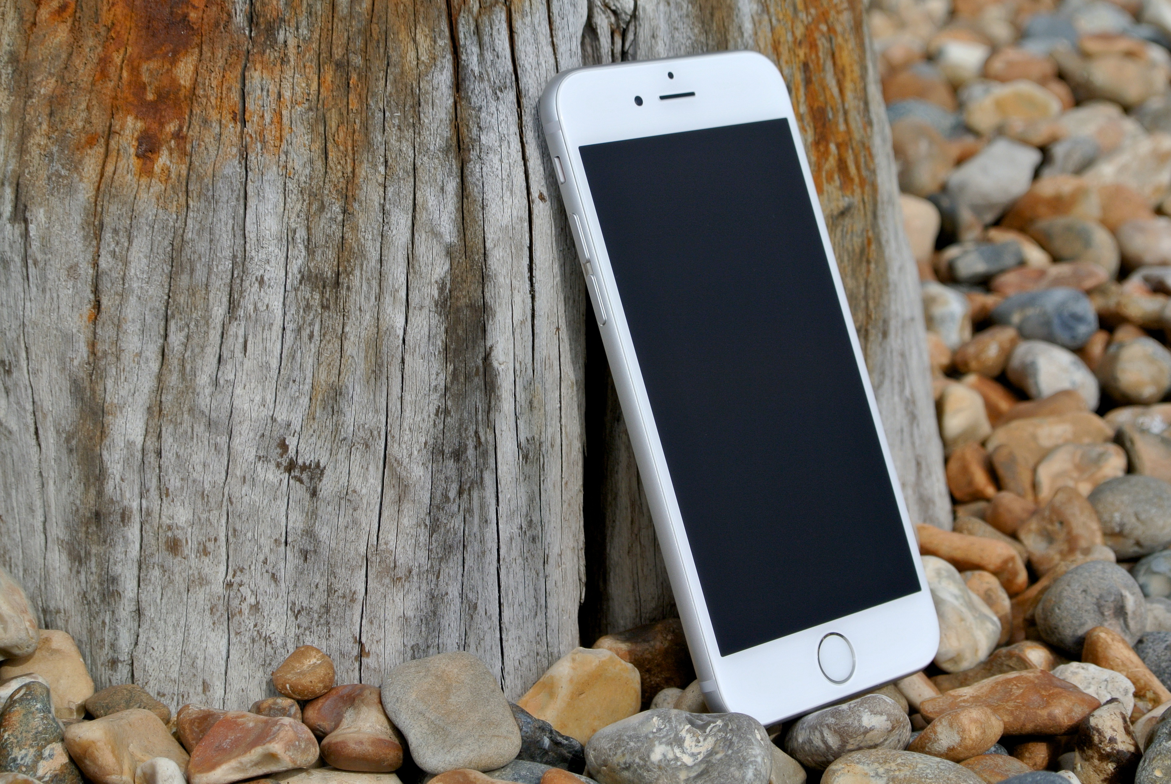 Photo of a silver Apple iPhone 6